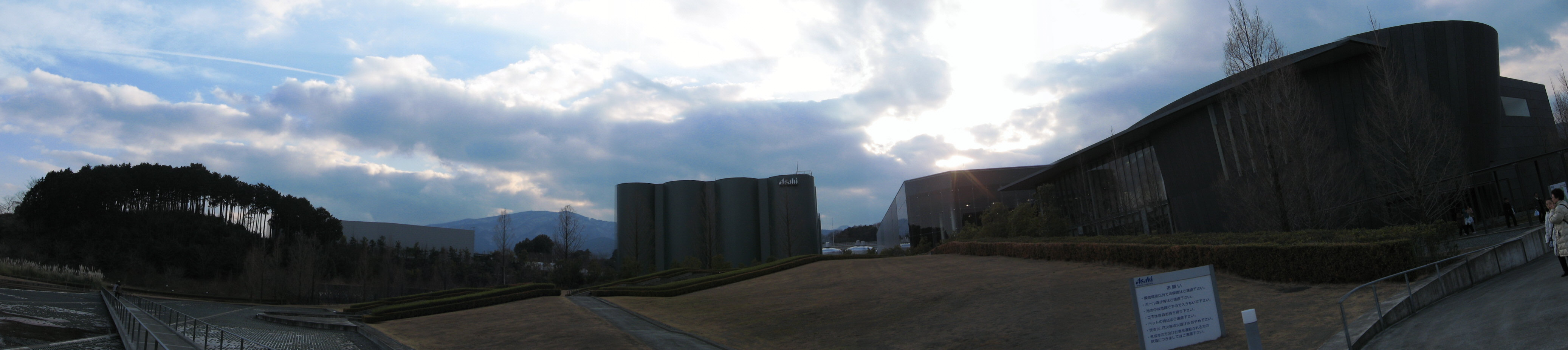 Asahi Berweries corporation Kanagawa beer factotrys.